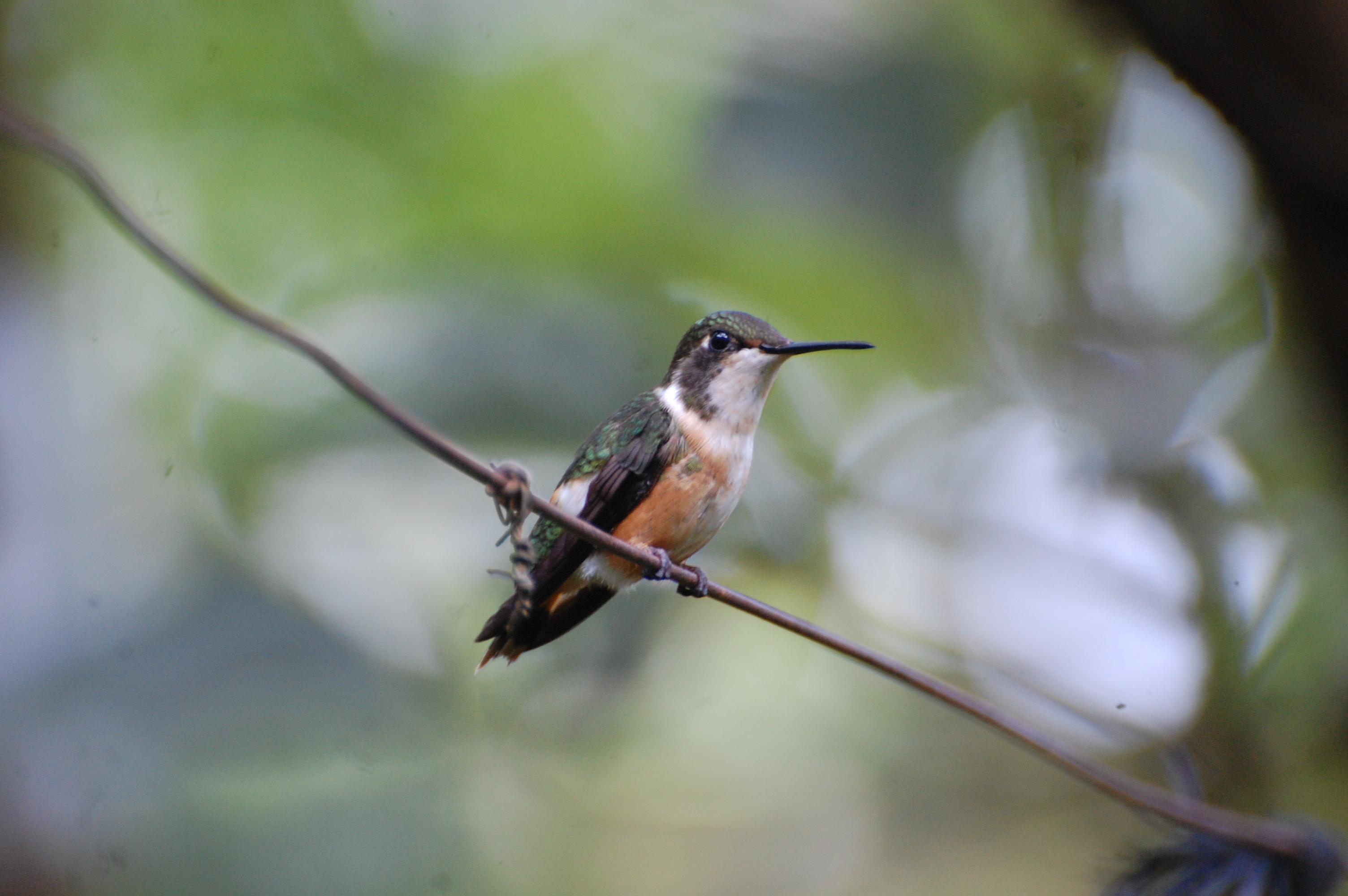 Photo of a female Magenta-throated Woodstar (Calliphlox bryantae) hummingbird at the hummingbird gallery at the Monteverde Cloud Forest Reserve, Costa Rica